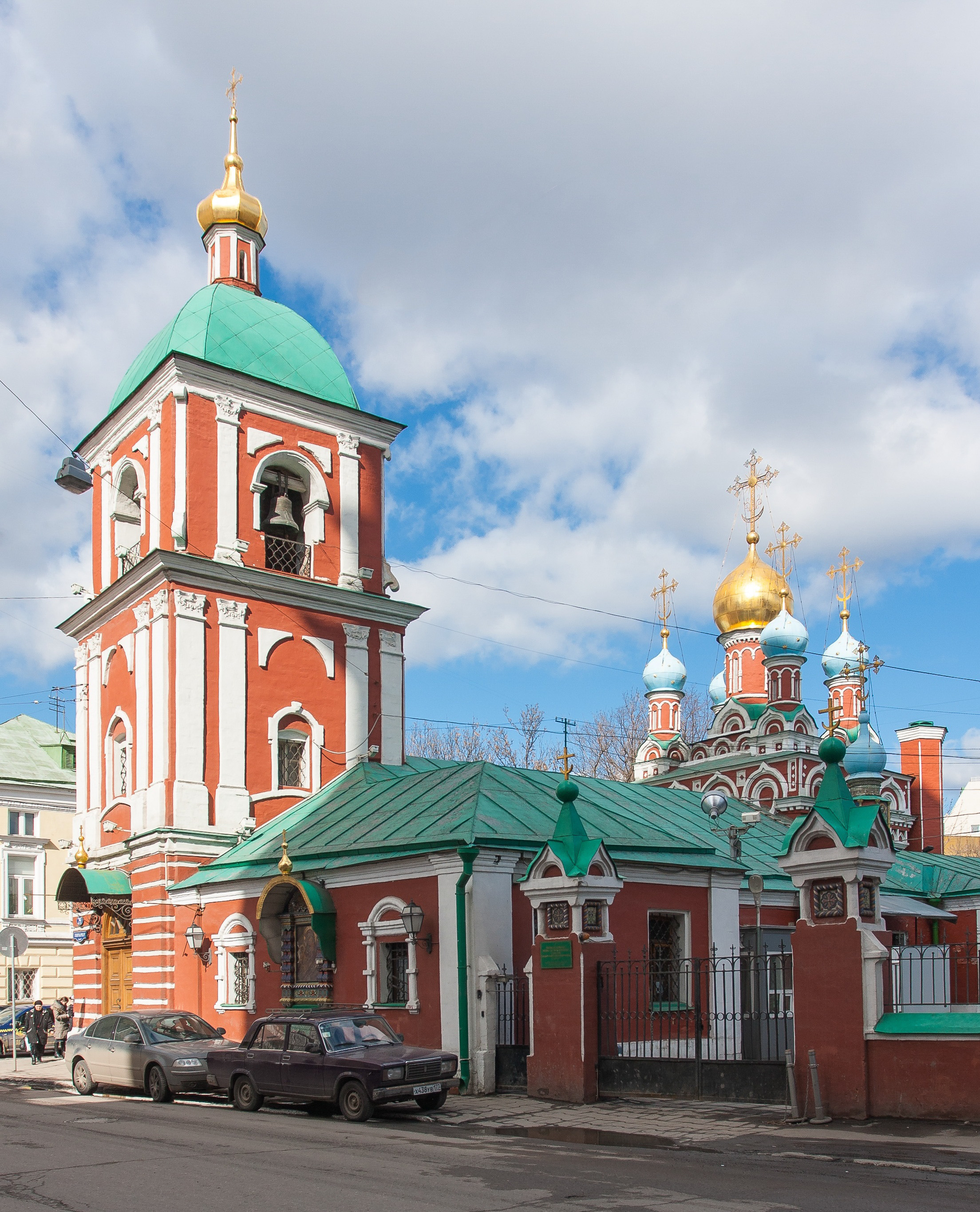 Church of the Dormition of Our Lady in Gonchary (Moscow, Russia)